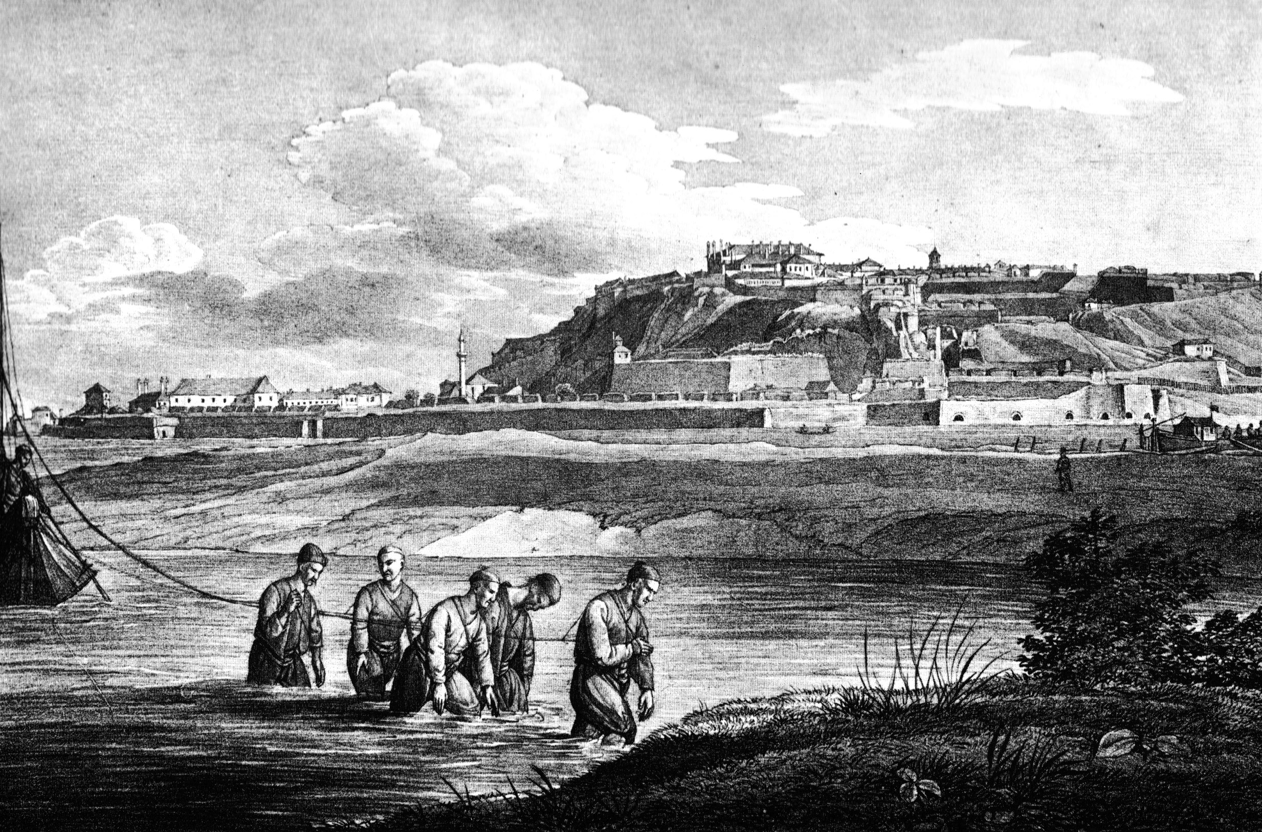 Belgrade in 1821. Drawing by J. Alt, lithographing by Adolph Kunike